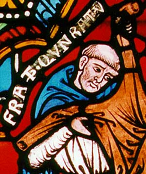 Conrad of Marburg, detail of a 13th century church window, Elisabethkirche Marburg.